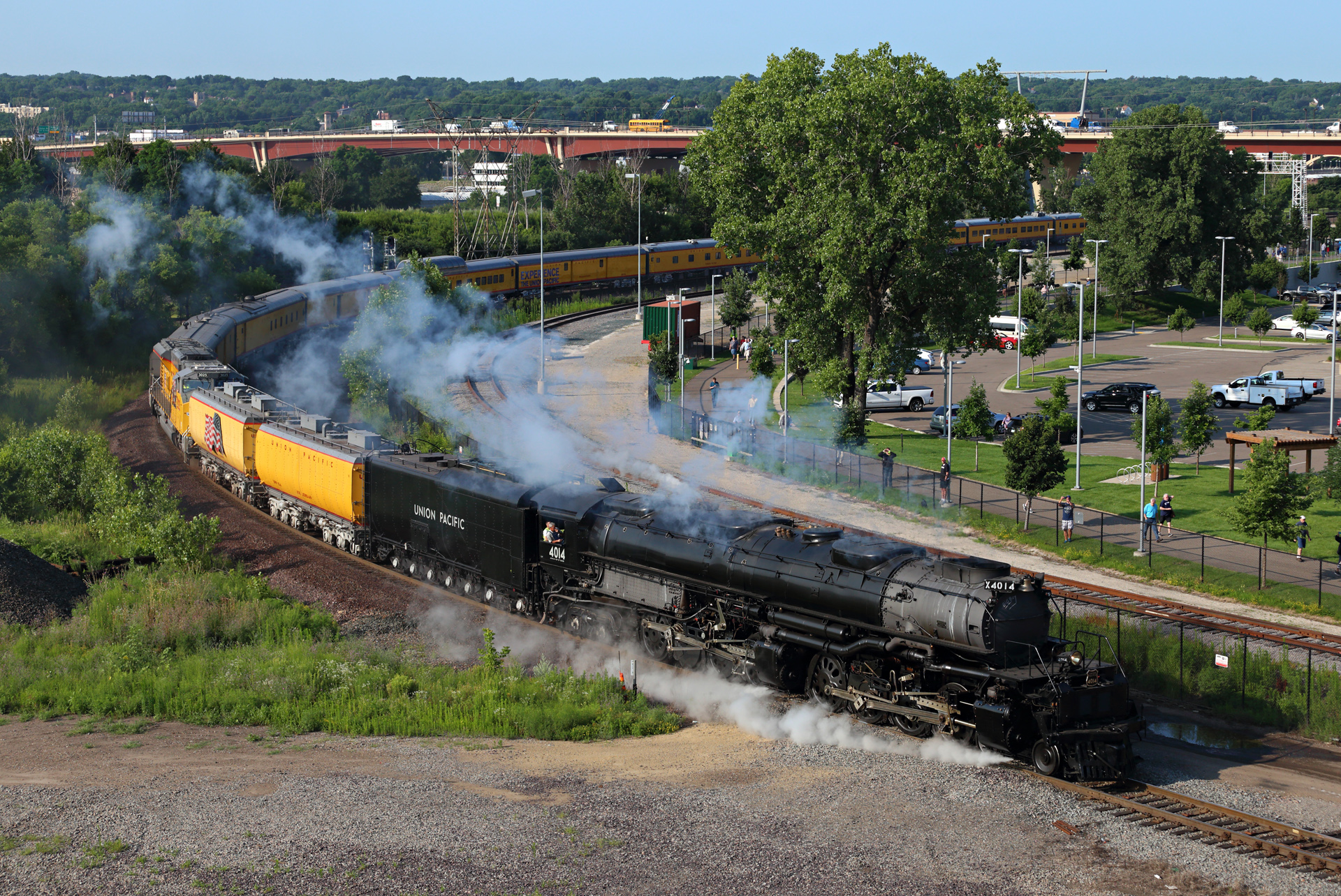 UP 4-8-8-4 No. 4014 leads a business train out of Union Depot in St. Paul, Minn.